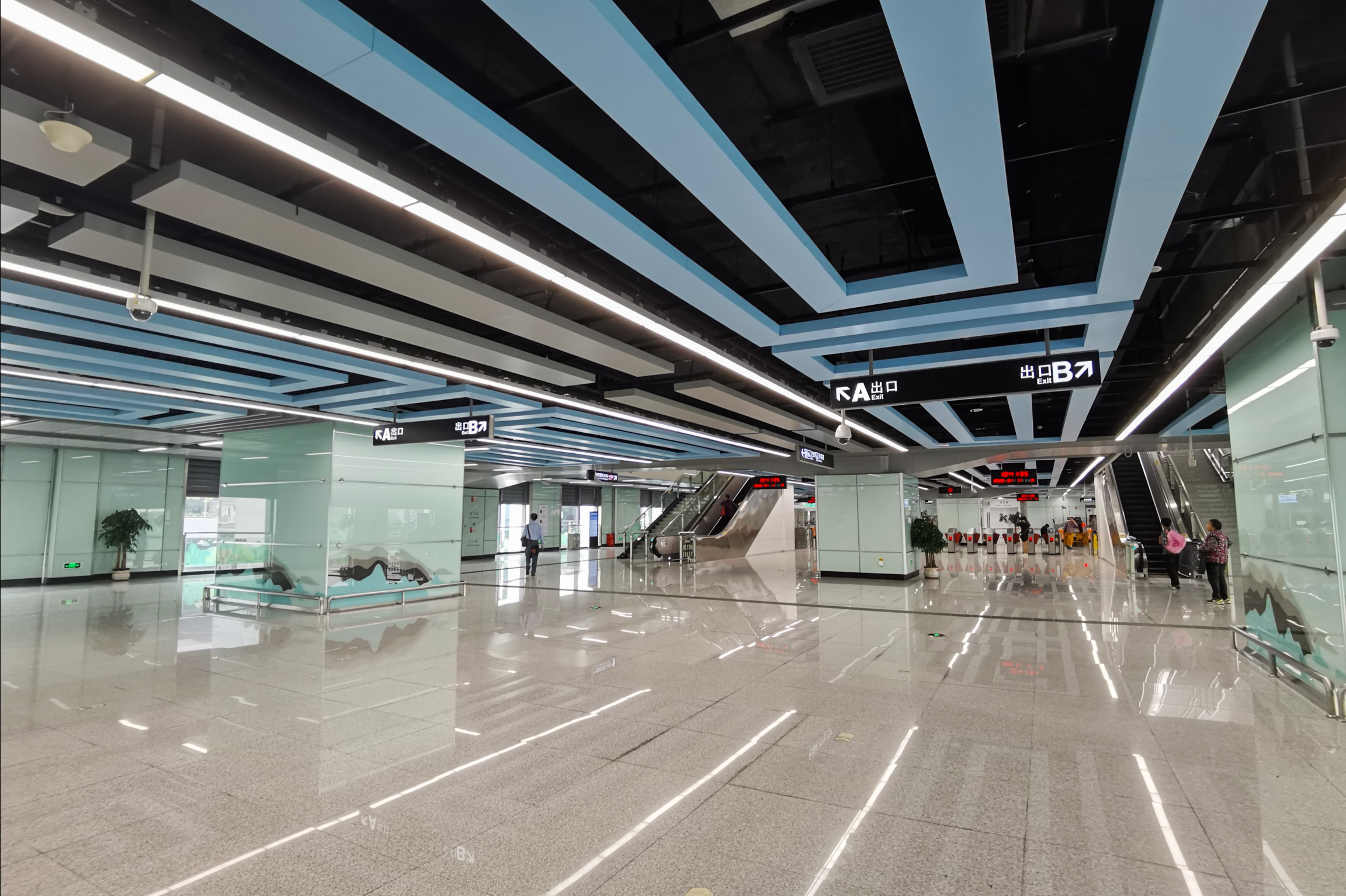 广州地铁太平站